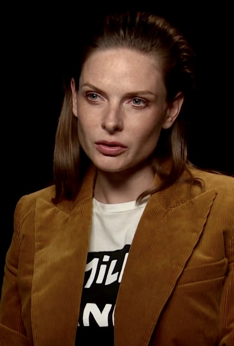 Rebecca Ferguson promoting Mission Impossible - Fallout in 2018